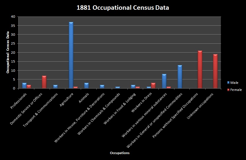 Roecliffe Occupational Census Data Graph